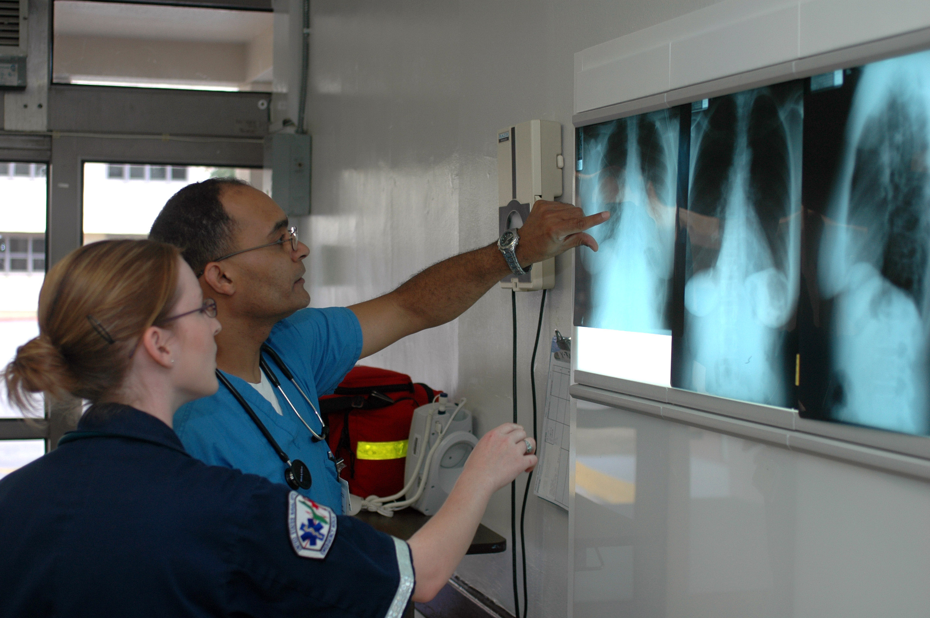 Agana Heights, Guam (April 10, 2006) - Navy Hospital Corpsman 3rd Class Mary A. Rhudy and Lt. Junius Dural discuss a patient's X-rays in the Emergency Room at Naval Hospital Guam. Petty Officer Rhudy, works as a general duty corpsman and Lt. Dural is a Family Nurse Practioner. U.S. Navy photo by Photographer's Mate 2nd Class Nathanael T. Miller (RELEASED)